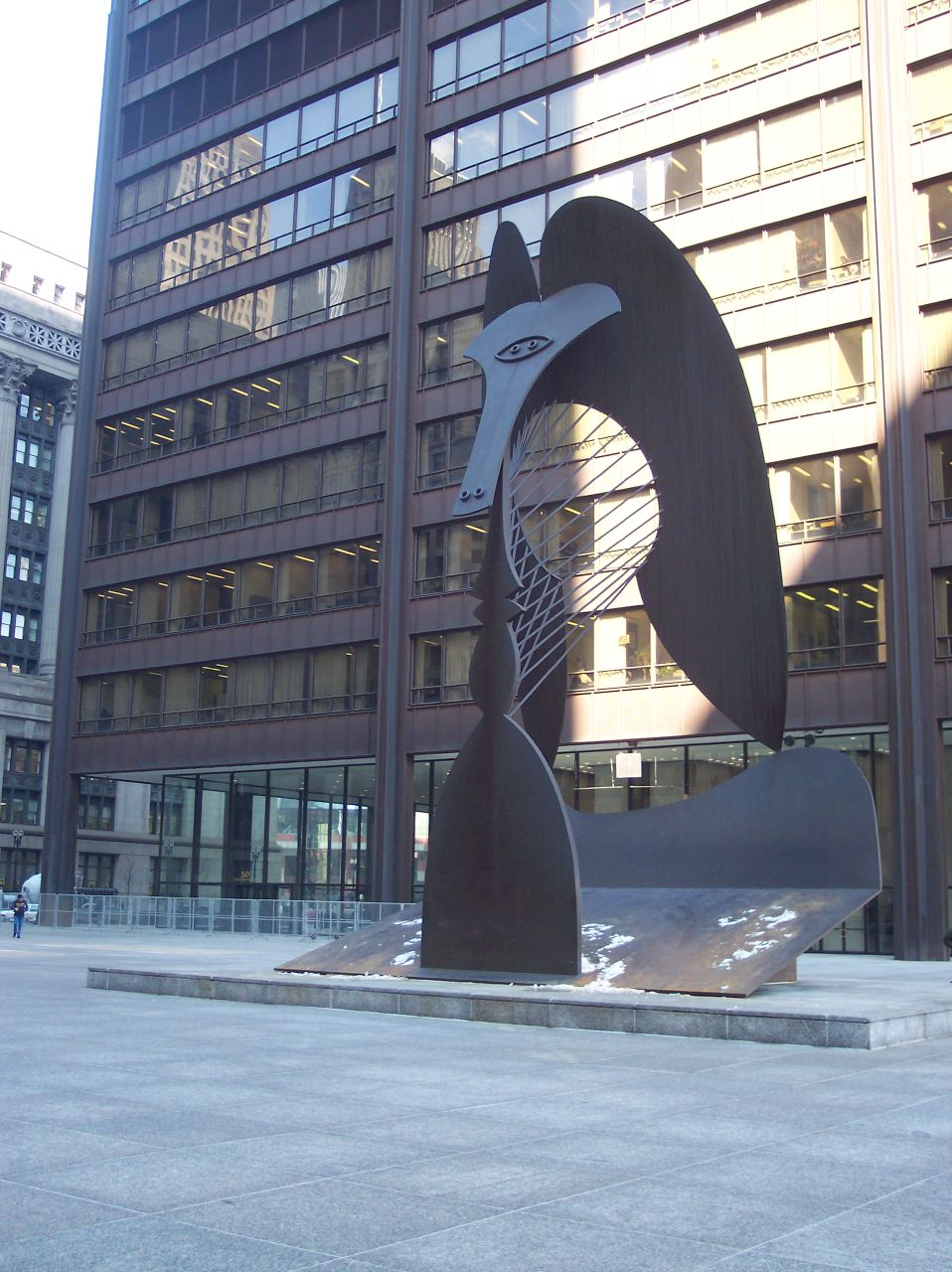 The Chicago Picasso sculpture at Daley Plaza, Chicago, United States.Picasso